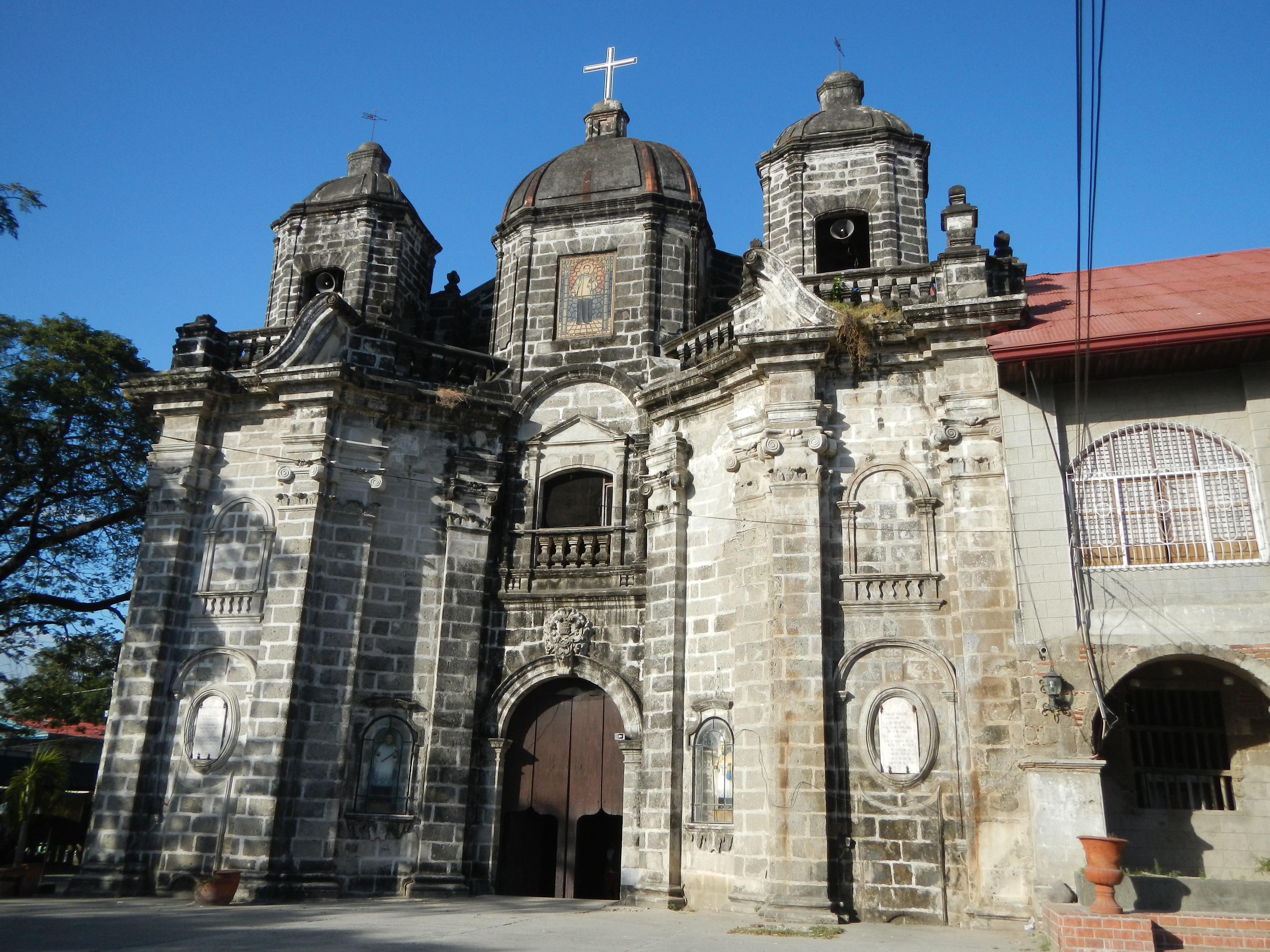 A very rare clean version no obstructions photos of this Philippine Cultural Treasure and Heritage of Pampanga, in Glorious almost sunset 2015 version of the Saint Aloysius Gonzaga Church (San Luis, Pampanga) in Barangay Santa Cruz Poblacion, [1] San Luis, Pampanga Town Proper.